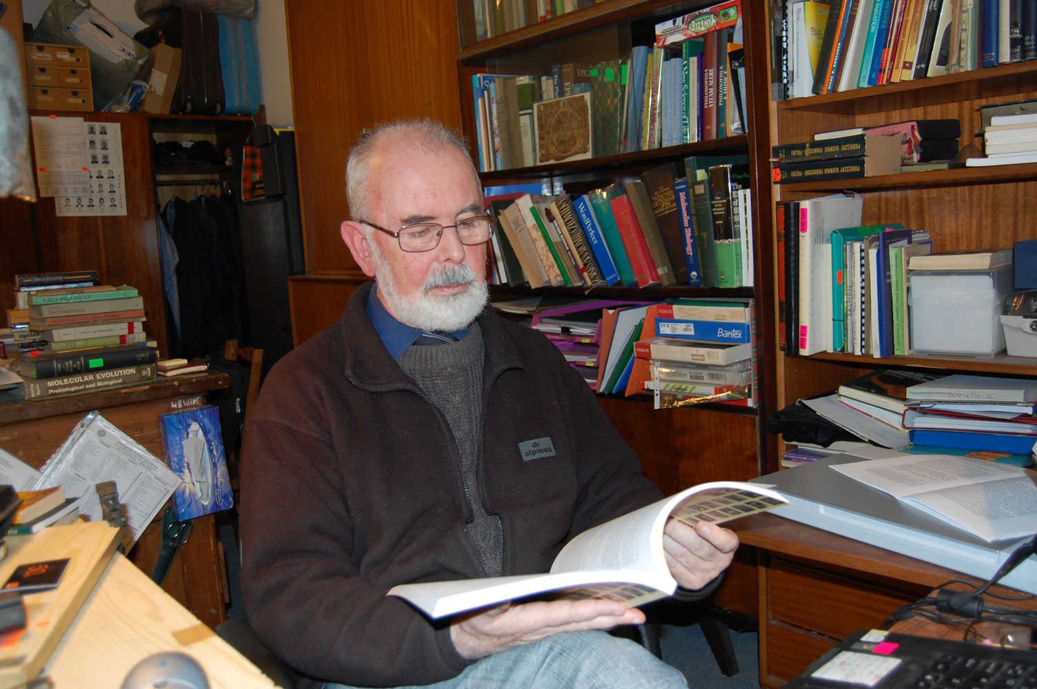 Piotr Lenartowicz in his room (Kraków, Kopernika 26)